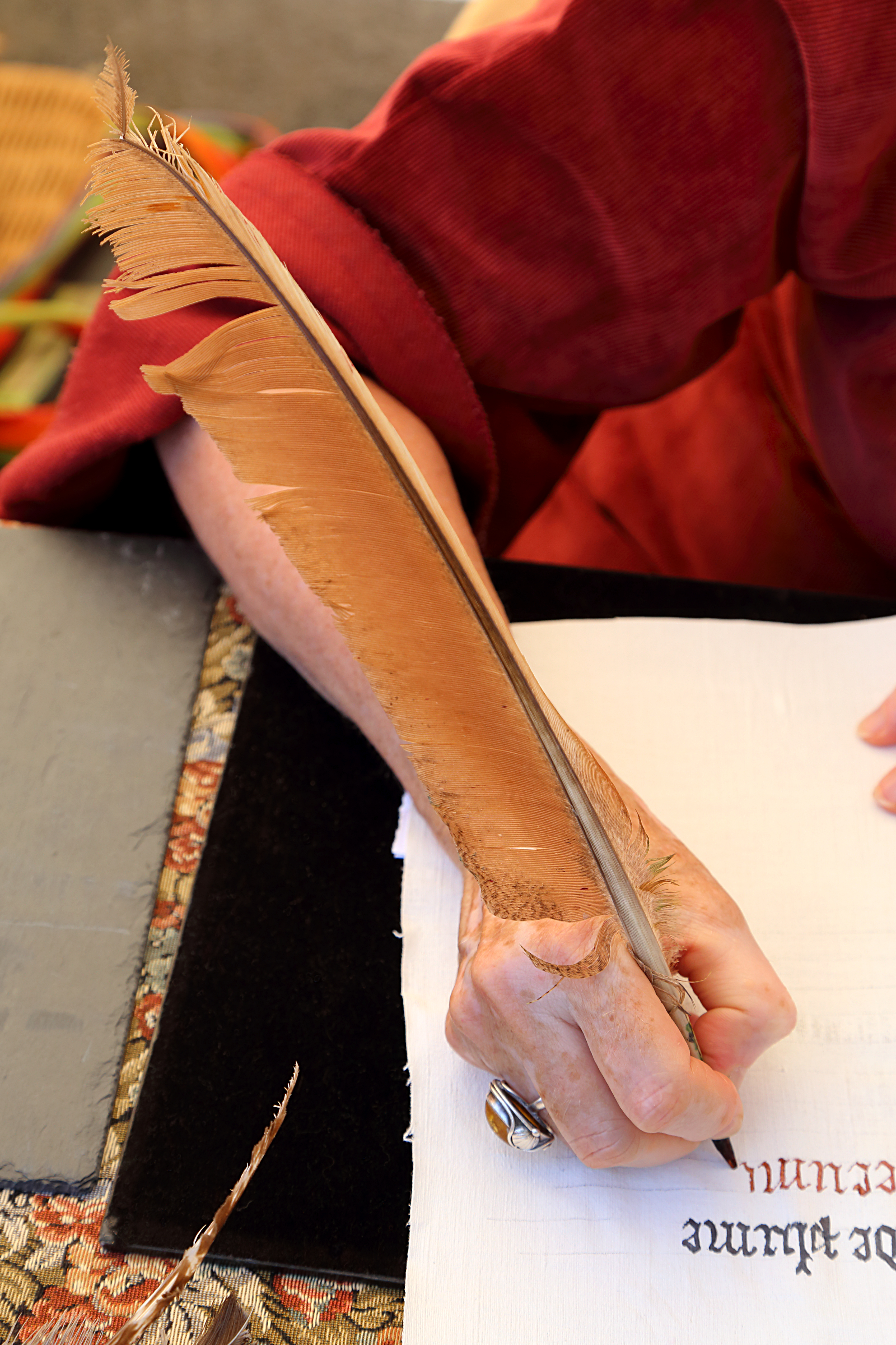 Writing with a quill pen at the medieval festival of Vaulx, Belgium.